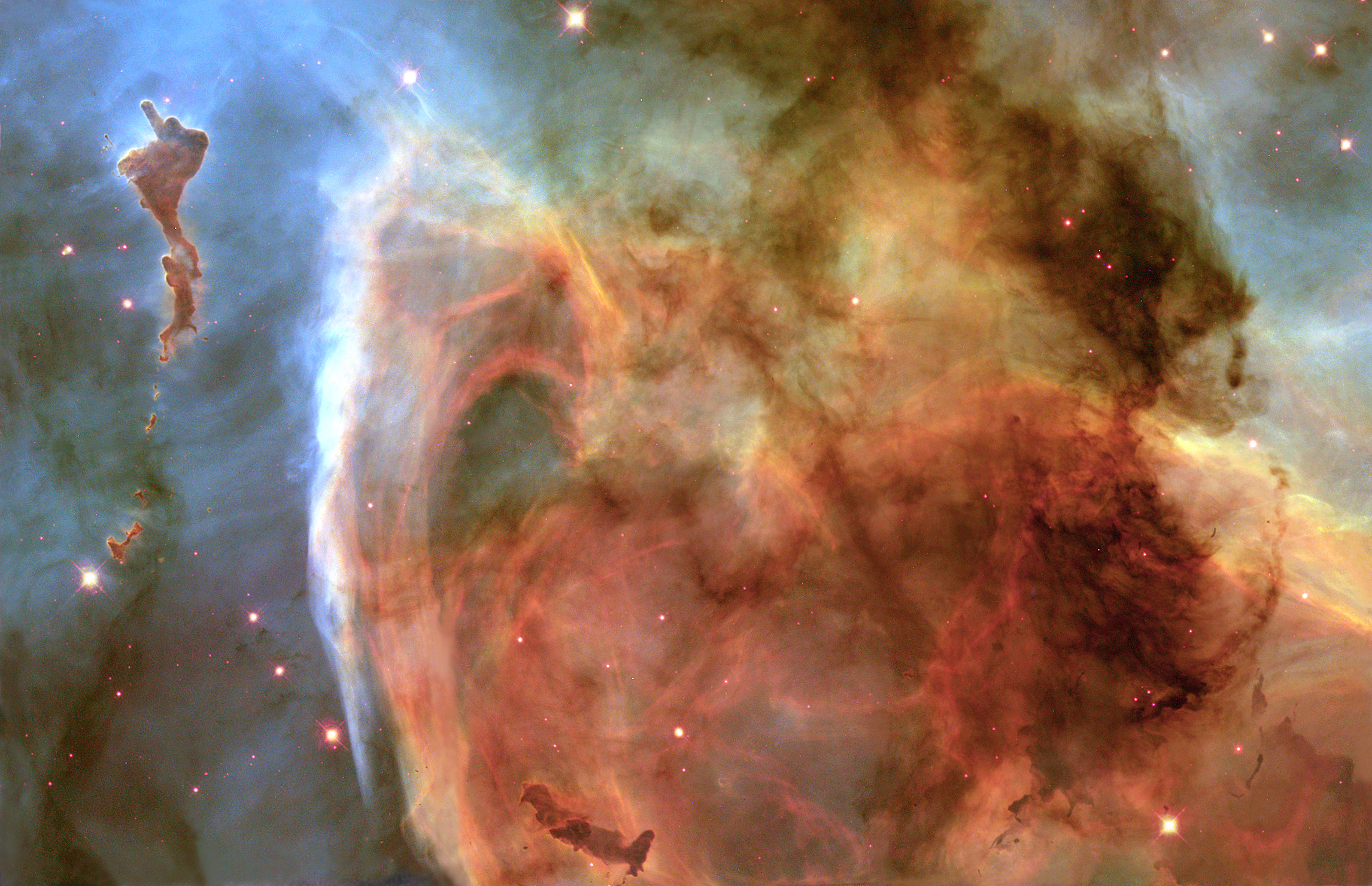 The Keyhole Nebula, within NGC 3372. A mosaic of four April 1999 images by Hubble's Wide Field Planetary Camera 2.